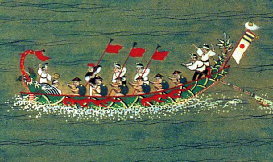 A dragon boat in Ryukyu Kingdom, so-called Haryusen.